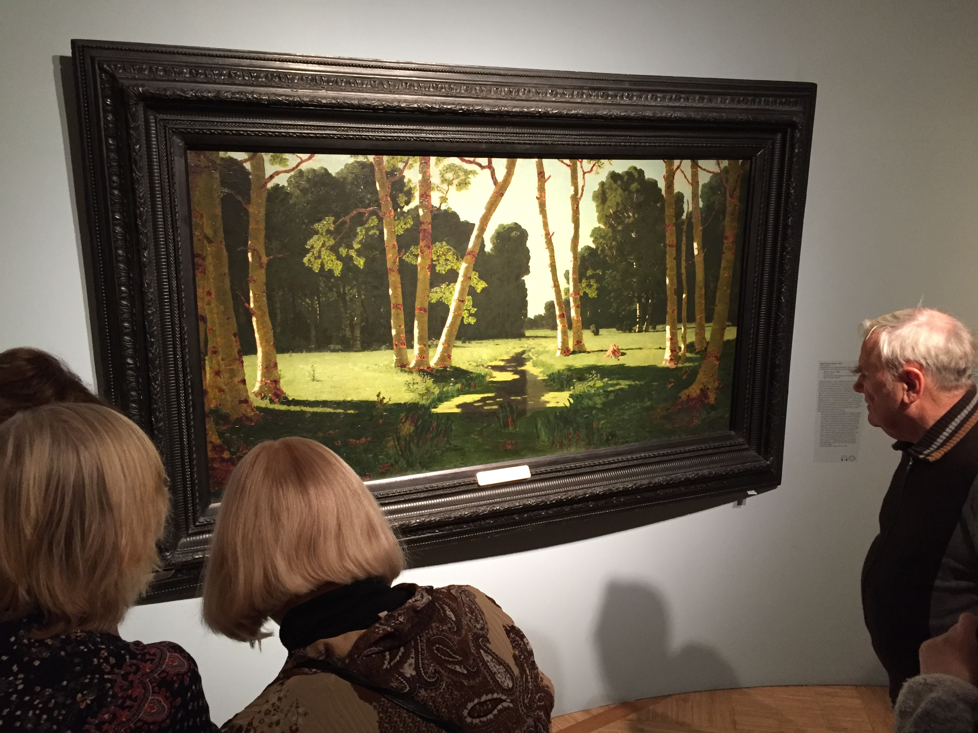 "Birch grove" (painting by Arkhip Kuindzhi, 1879) at the Kuindzhi exhibition in Tretyakov gallery